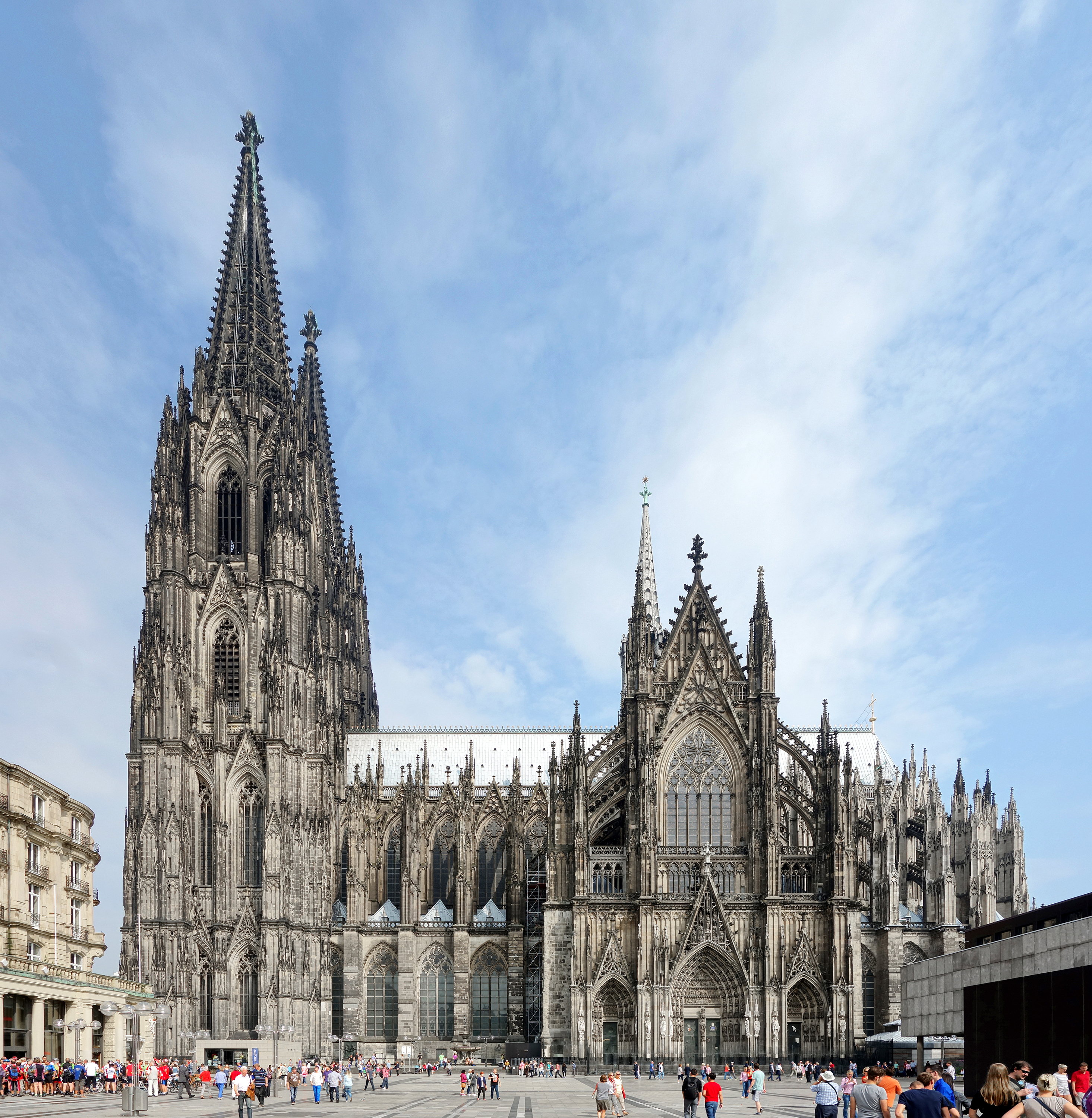 South side of Cologne Cathedral, Germany. This is a photograph of an architectural monument.